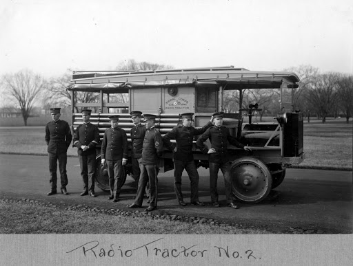 Radio Tractor No.2, a Signal Corps body on a Jeffrey Quad 2-ton 4x4 chassis, precursor to the Nash Quad